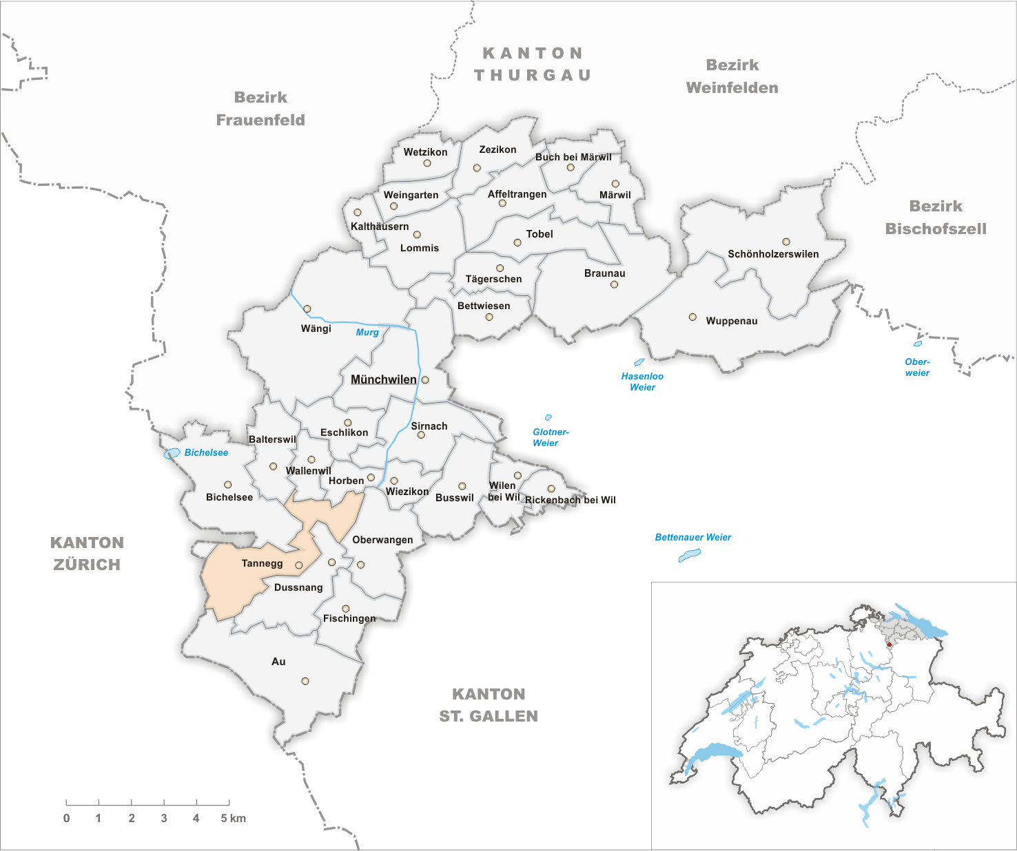 Municipality Tannegg